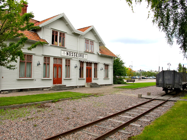 The closed railway station in Nossebro in Essunga Municipality, Sweden